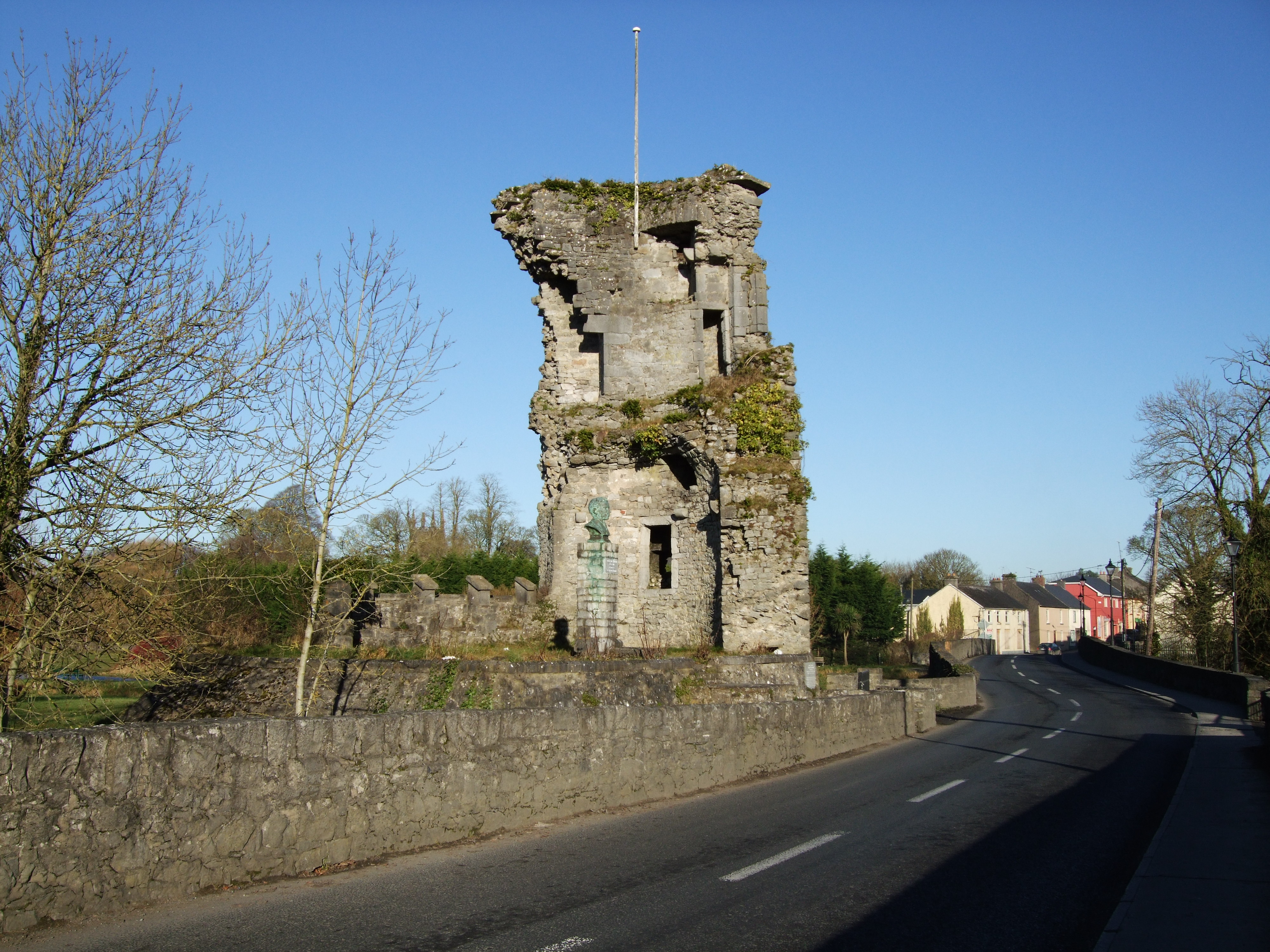 The castle at the bridge through Golden